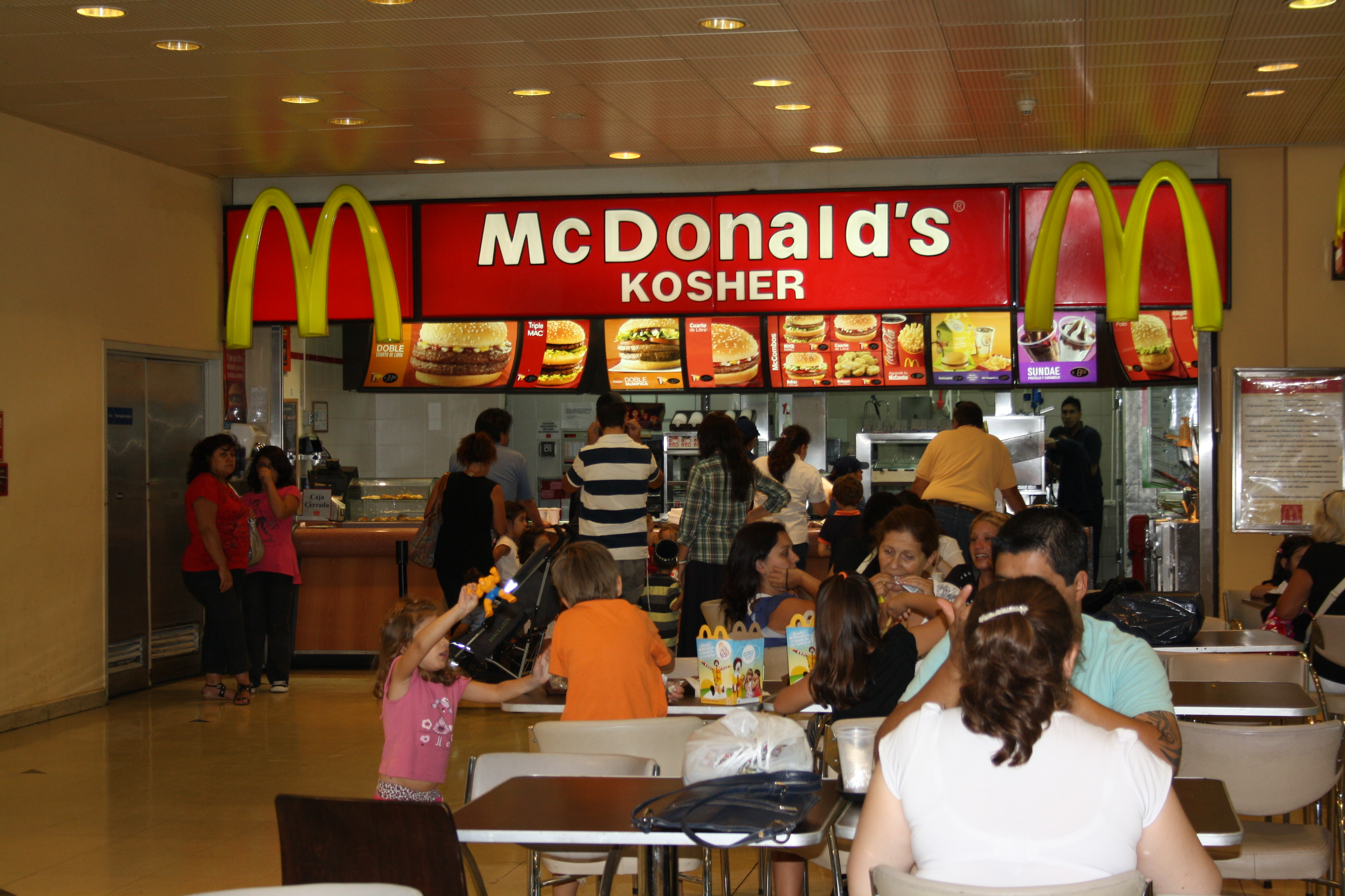 kosher McDonald's restaurant in Abasto shopping, Buenos Aires, Argentina